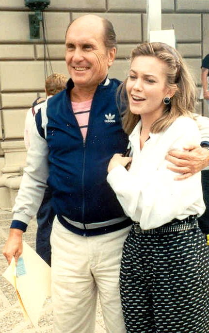 Robert Duvall and Diane Lane taken at the 41st Emmy Awards 9/17/89